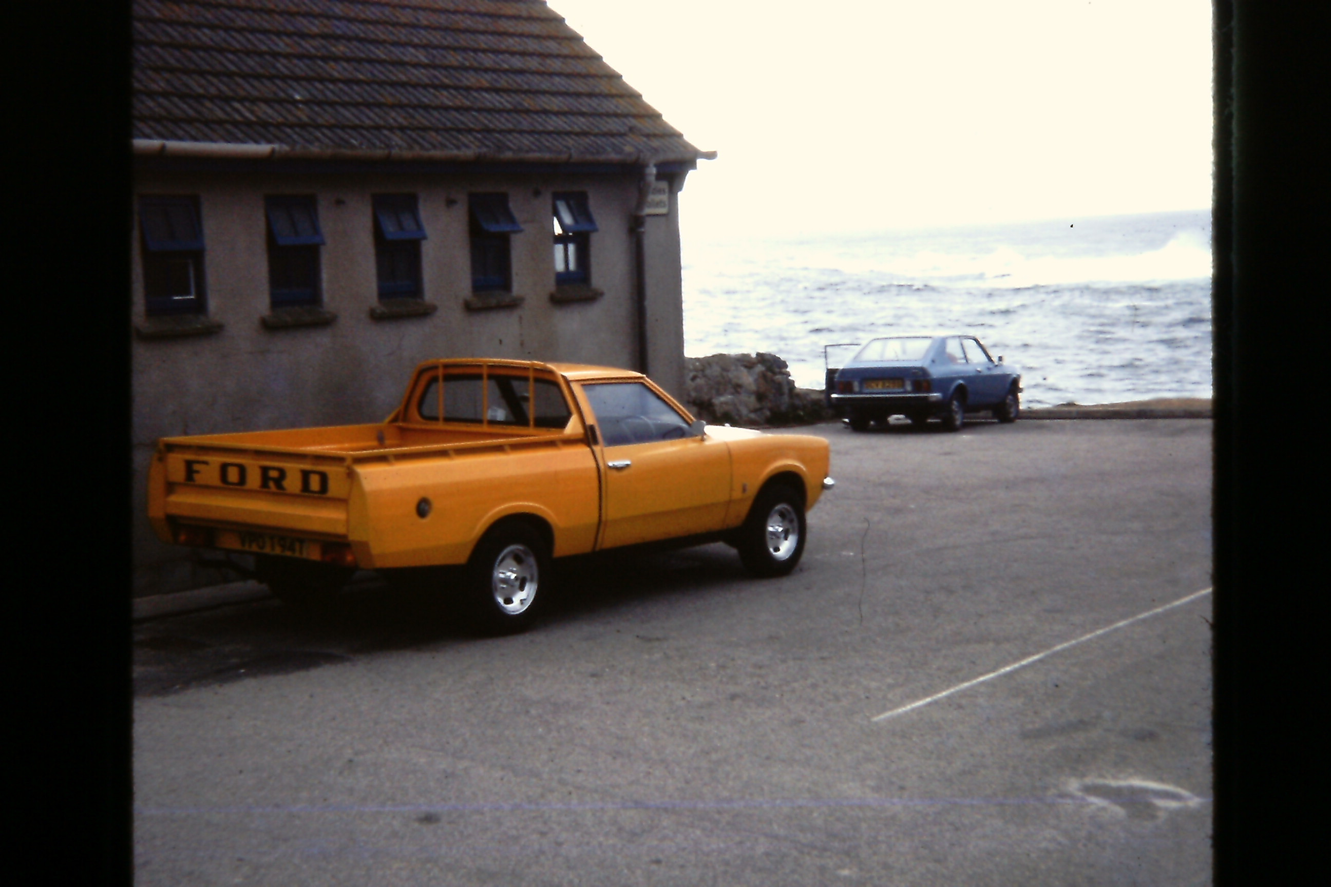 South-African built Ford Cortina P100 Pick up with my Fiat 128 3P Berlinetta (photo September 1979)